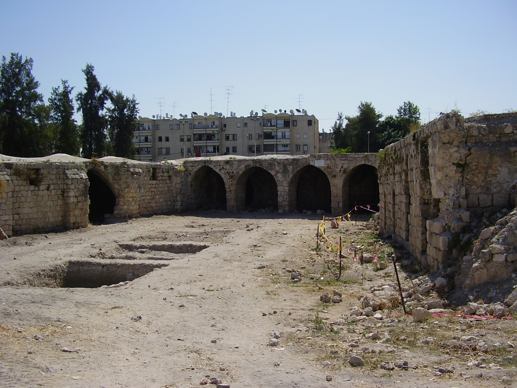 khan chilo in lod